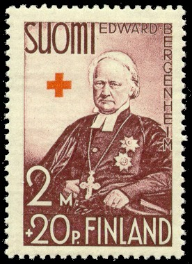 Postage stamp depicting Finnish Archbishop Edvard-Bergenheim.